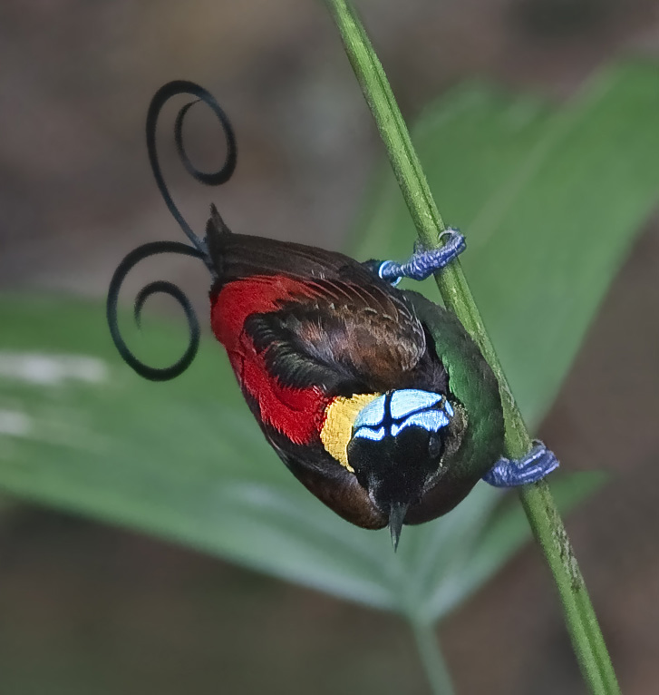 Wilson's Bird of Paradise, Category:Cicinnurus respublica